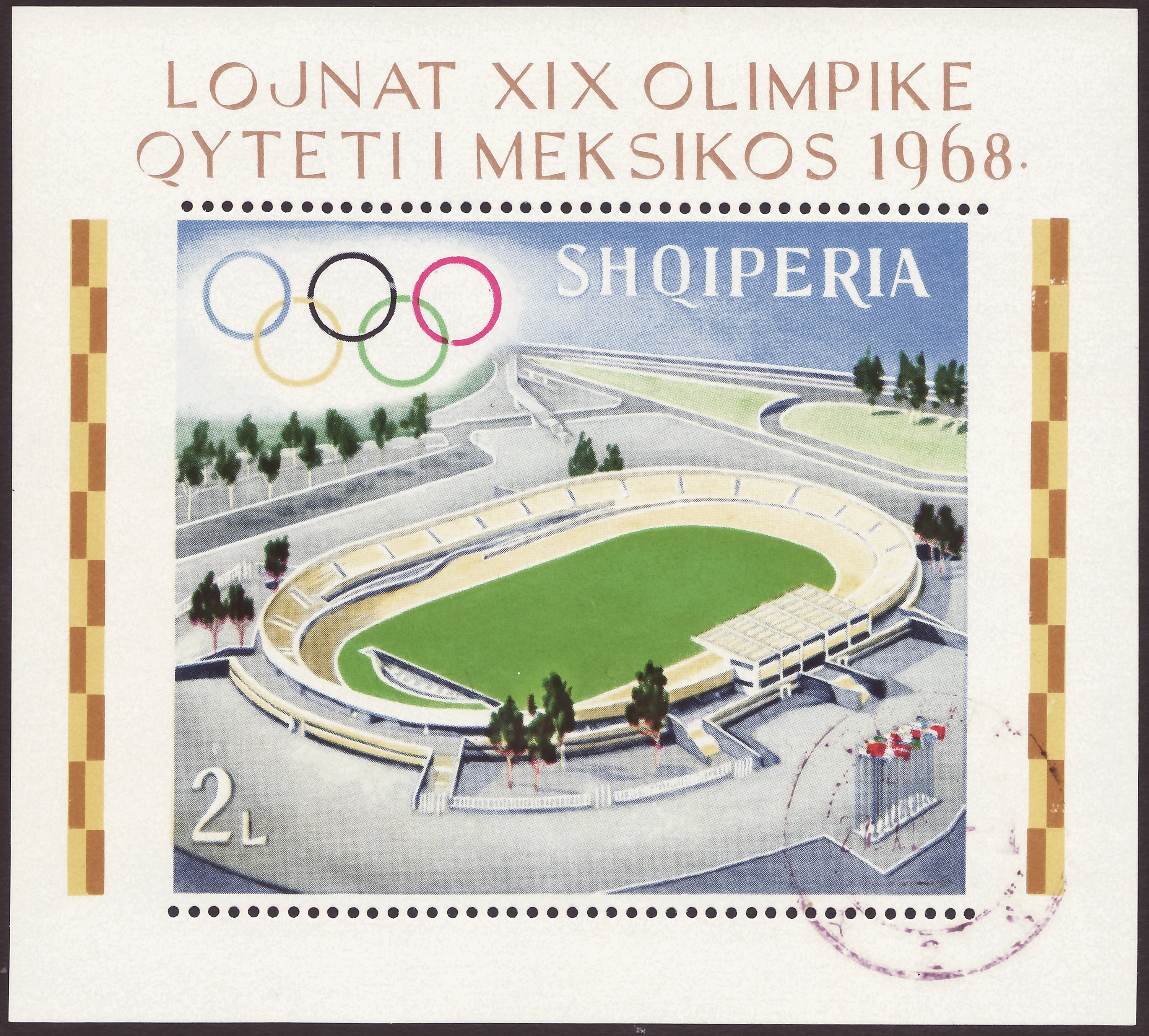 Stamp of Albania; 1968; commemorative stamp in souvenir sheet format to the 1968 Summer Olympic Games in Mexico City; stamp drawing with the bird's eye perspective of the Olympic Stadium in Mexico City; stamp postmarked Note: Albania did not take part in the 1968 Olympic Summer Games. Stamp: Michel: No. 1314A Color: multicolored Watermark: none Nominal value: 2 L (Lek) Postage validity: from 23 September 1968 until ? Stamp picture size (printed area of the stamp inside of the souvenir sheet): 64.0 x 54.0 mm